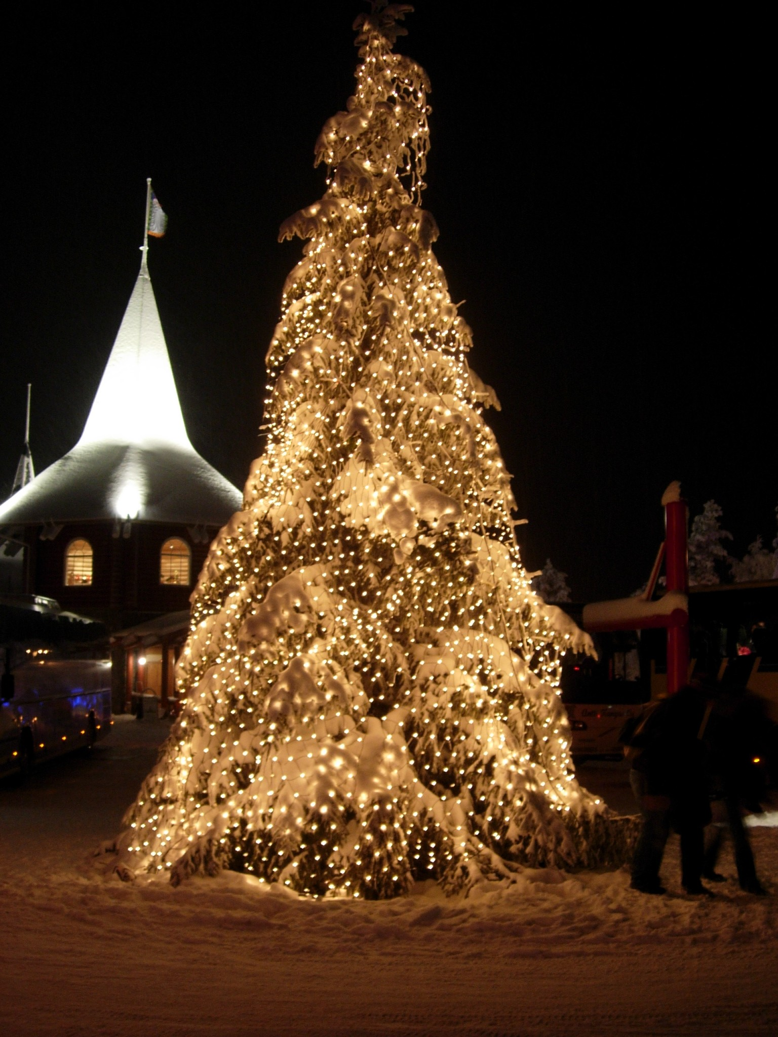 A Christmas tree at Santa Claus' Park. In 2005 this was close to the entrance.